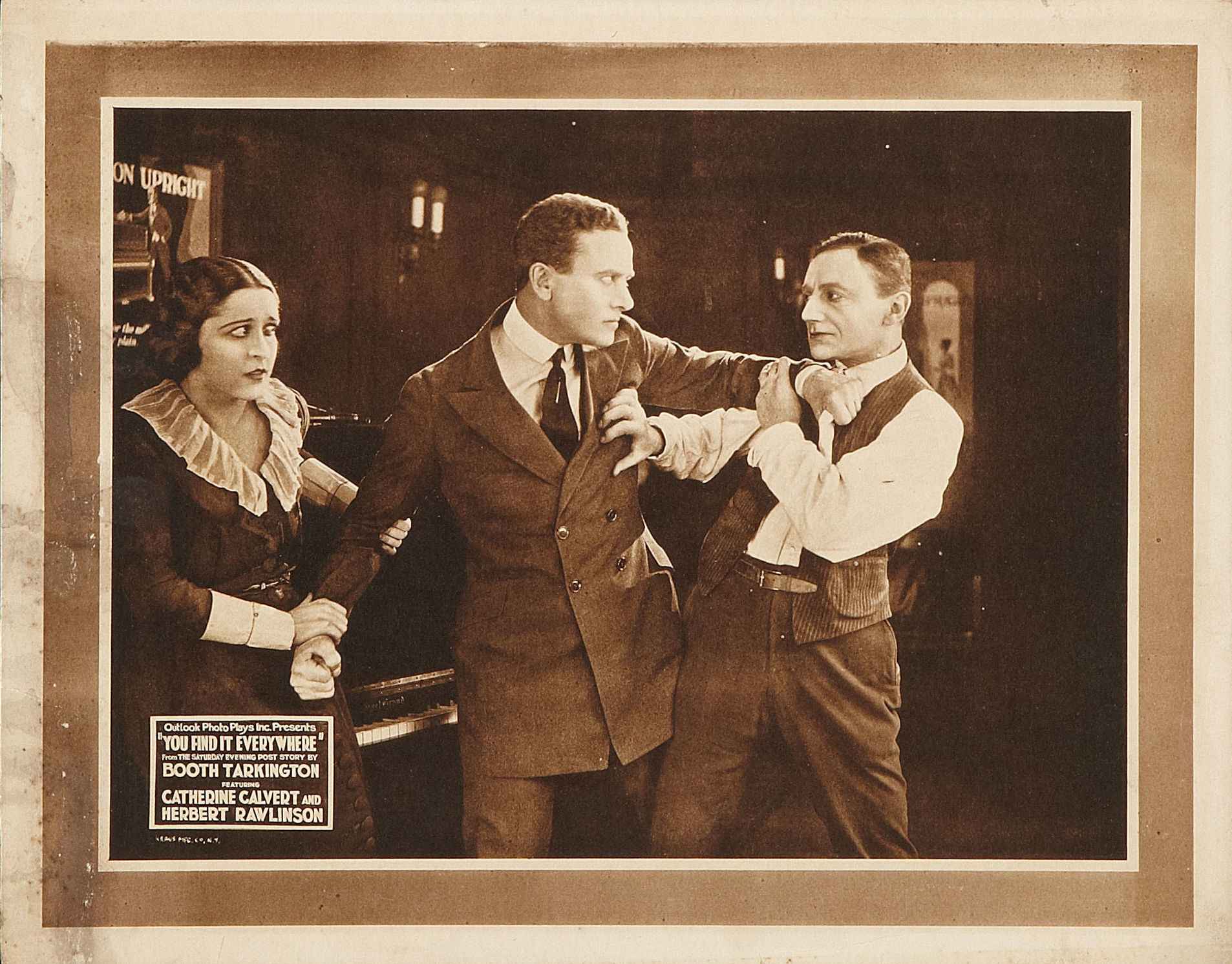 Lobby card for the American film You Find It Everywhere (1921).